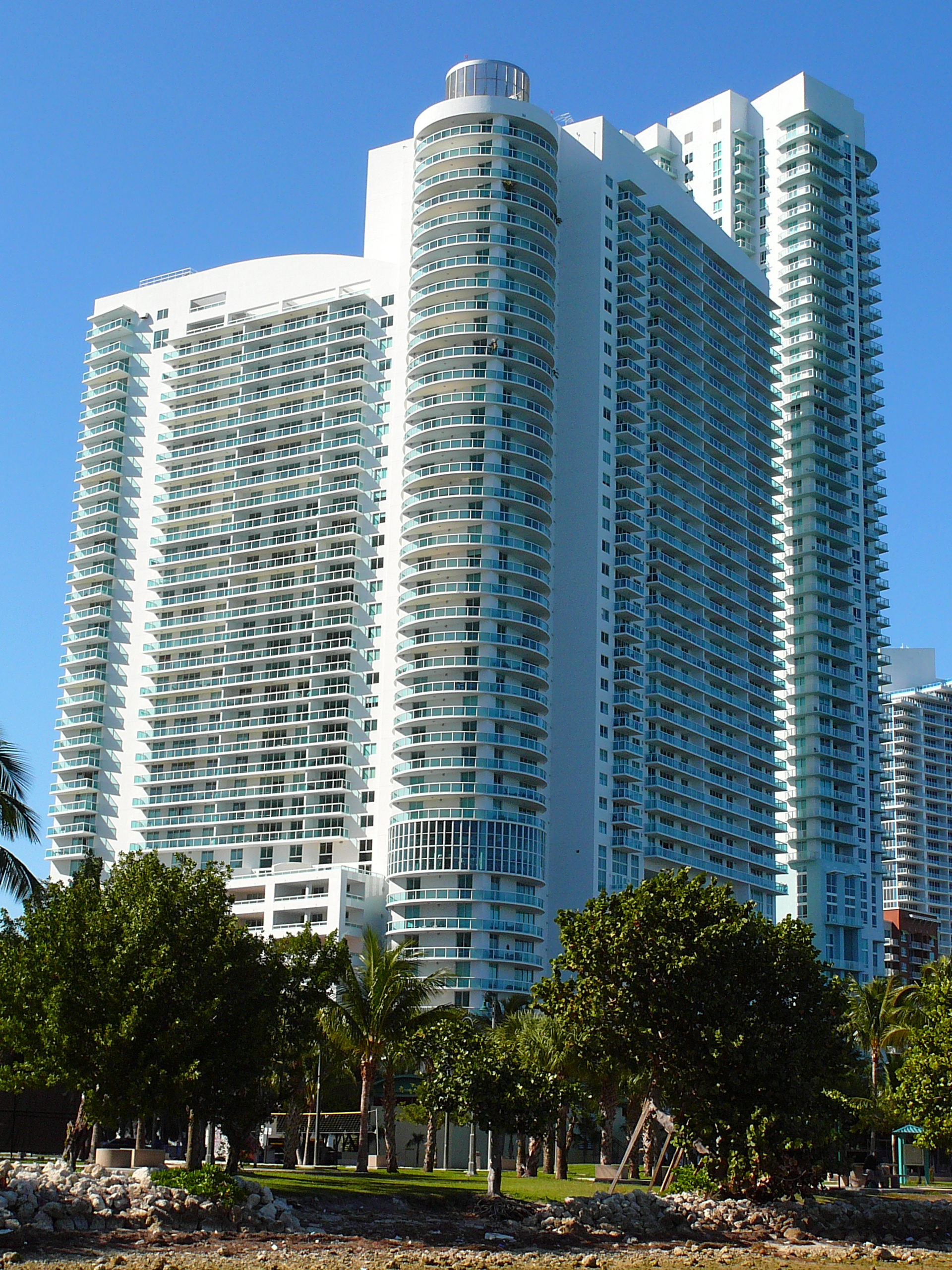 Digital photo taken by Marc Averette. The en:1800 Club in Miami 2/12/2009.